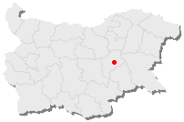 Map of Bulgaria, the red point is the position of Sliven.